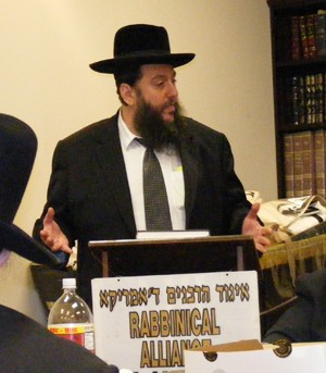 Photograph of prominent Orthodox Rabbi Yehuda Levin of Khal Mevakshei Hashem hosting a conference of the Rabbinical Alliance of America